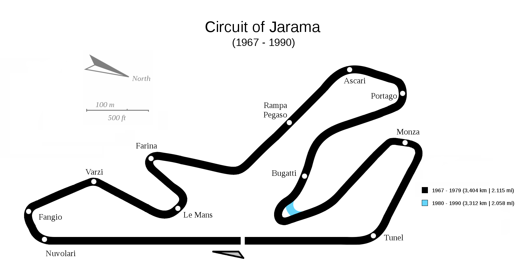 Circuit of Jarama map, old version of the track in use from 1967 to 1990. In 1991 a bend has been added after the Ascari and Portago has been modified, for a total length of 2.392 mi.